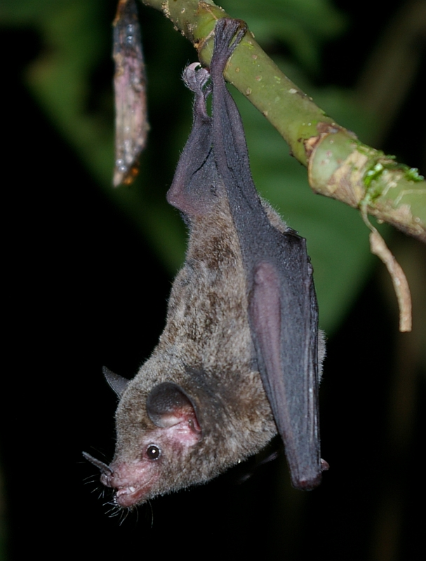 Nectar-feeding bat Glossophaga commissarisi